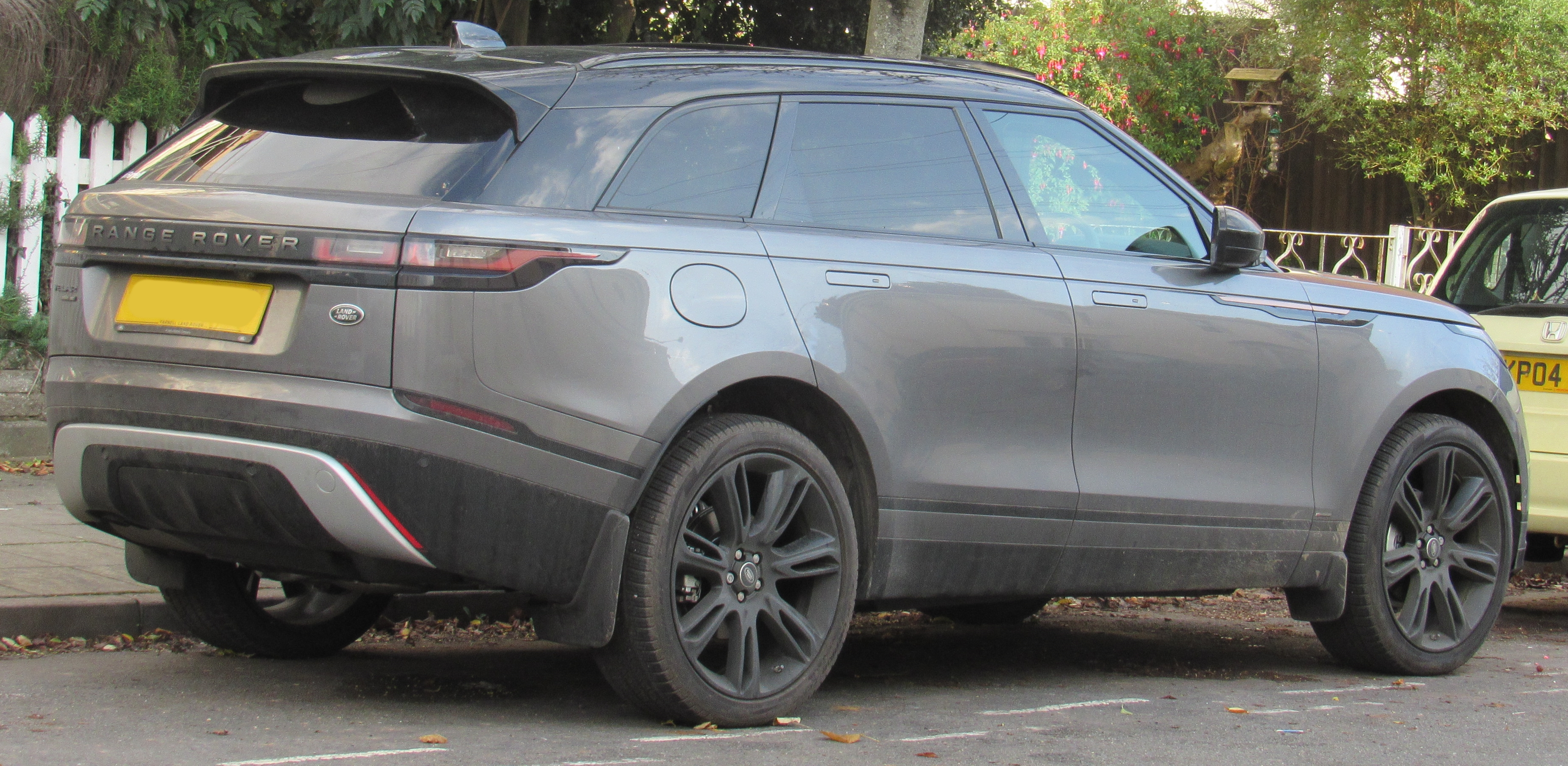 2017 Land Rover Range Rover Velar R-Dynamic SE D2 2.0 Rear Taken in Leamington Spa